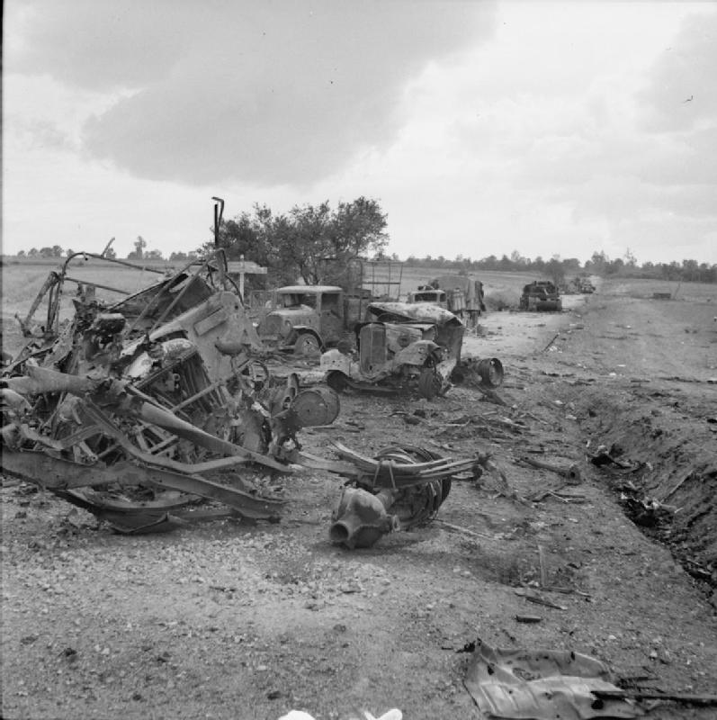 The British Army in Normandy 1944 Wrecked German transport and knocked out tanks on a road in the Falaise-Argentan area, 21 August 1944.